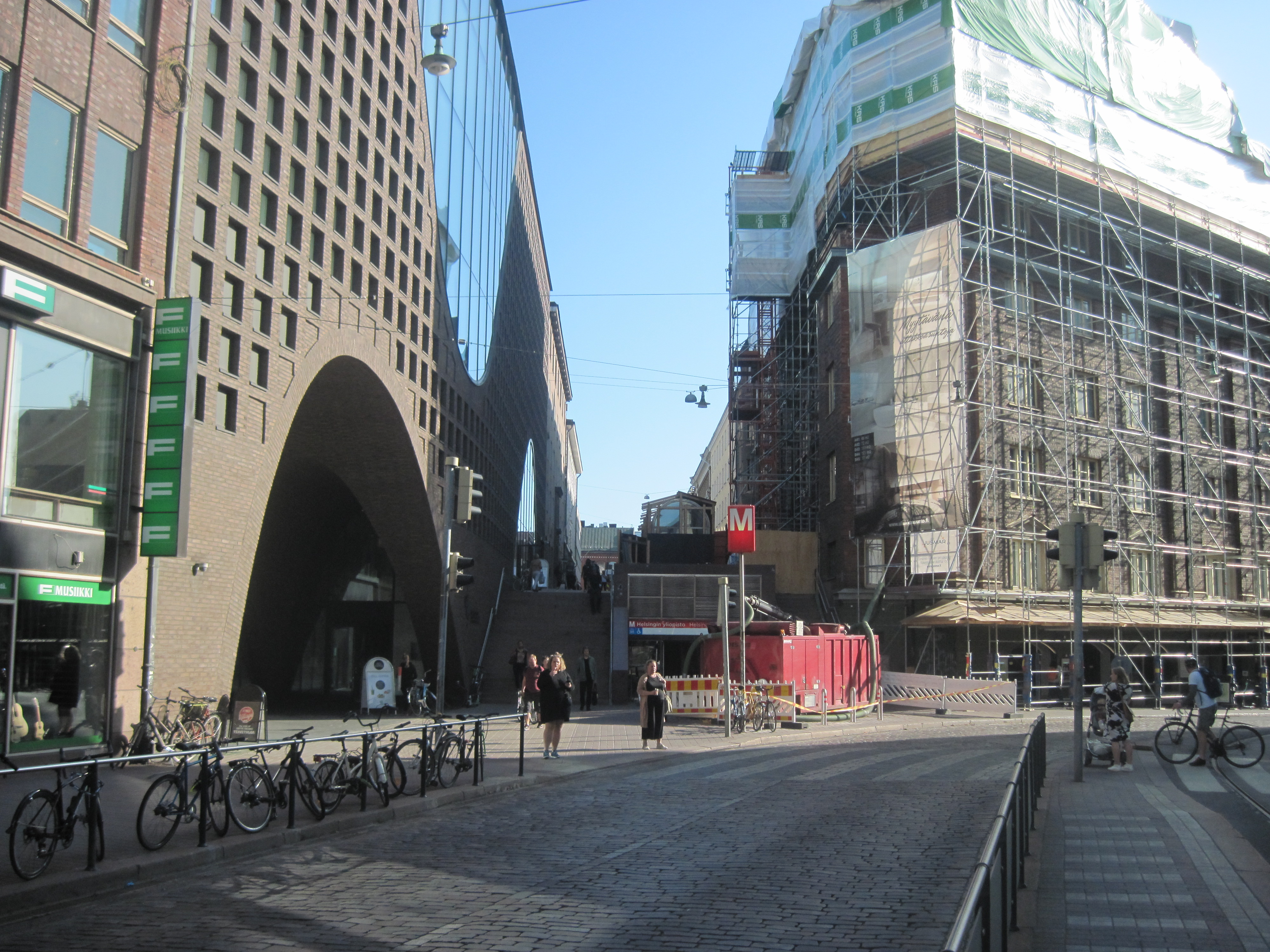 Vuorikatu in Helsinki, as seen Southwards from the corner of Kaisaniemenkatu